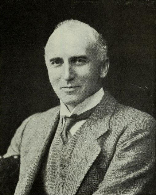 Portrait of John Simon, 1st Viscount Simon